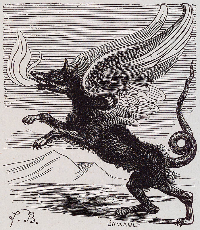 Marchocias, the grand marquis of hell who appears as a fierce wolf with griffon’s wings and serpent’s tail and spits fire, Dictionnaire Infernal, scan downloaded from